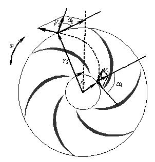 schéma montrant les vitesses en entrée et sortie d'un impulseur de pompe